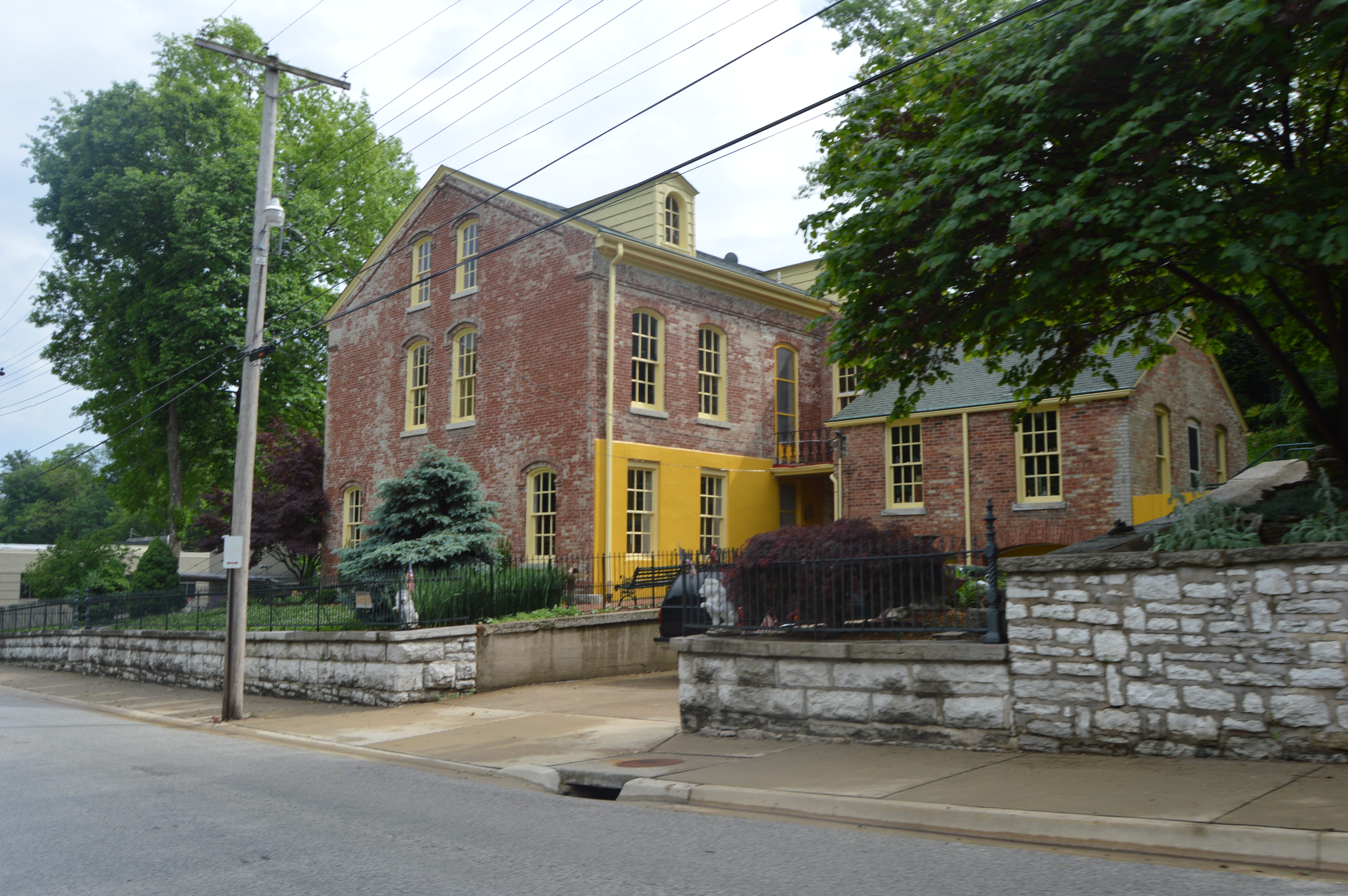 One of the buildings in the Yakel House and Union Brewery complex, located at 1421-1431 Pearl Street in Alton, Illinois, United States. The complex is listed on the National Register of Historic Places.